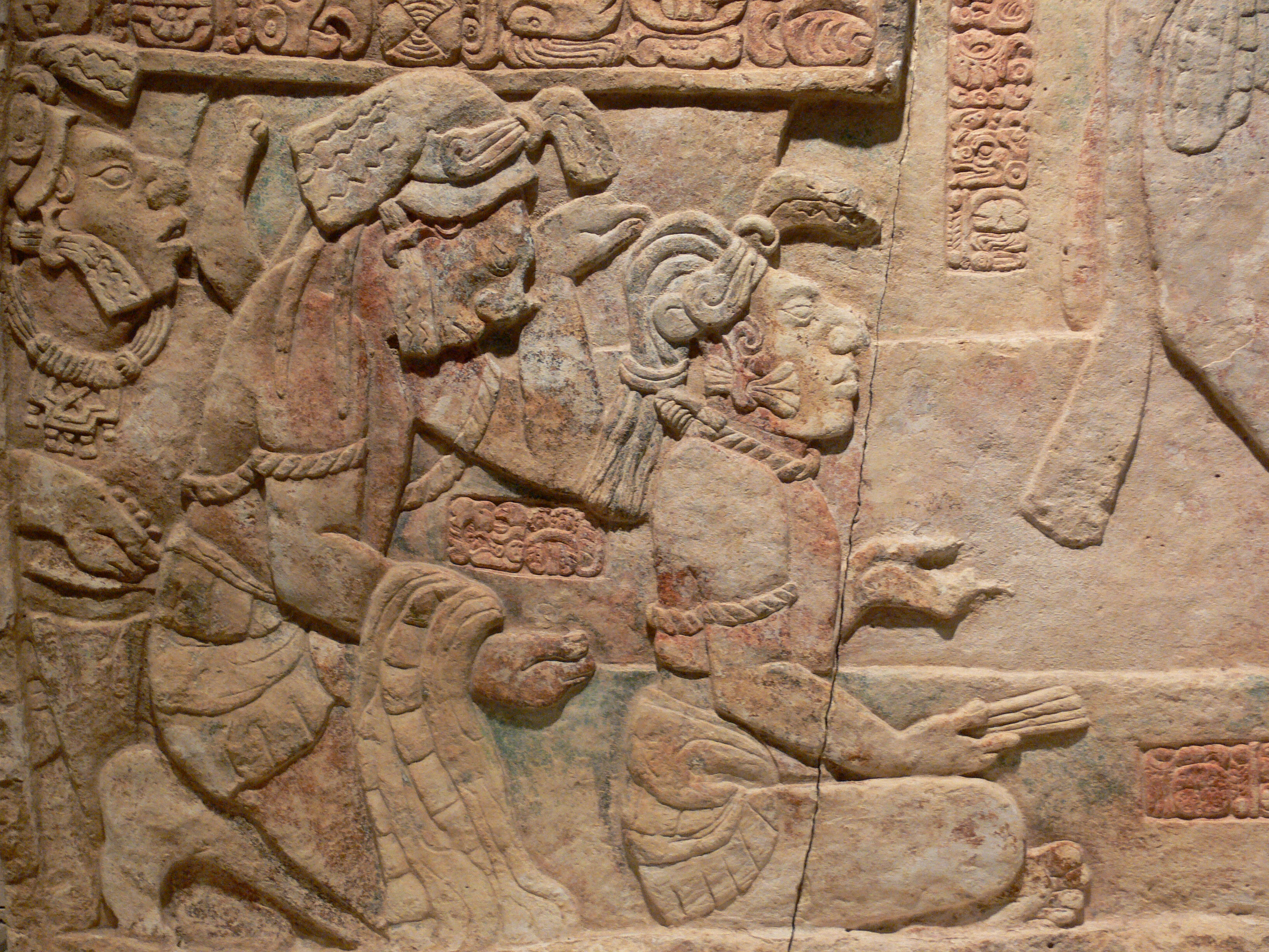 Presentation of Captives to a Maya Ruler; c. A.D. 785; Mexico, Usumacinta River Valley, Maya culture, Late Classic period (A.D. 600–900); Limestone with traces of paint 115.3 x 88.9 cm Kimbell Art Museum Fort Worth, Texas; AP 1971.07